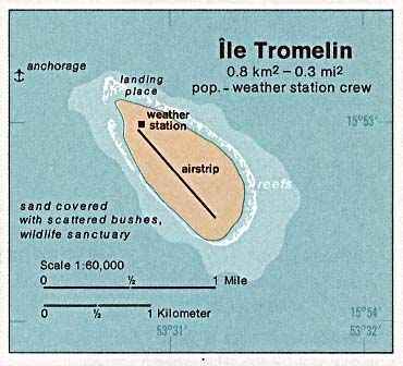 Map of Tromelin Island in the Indian Ocean